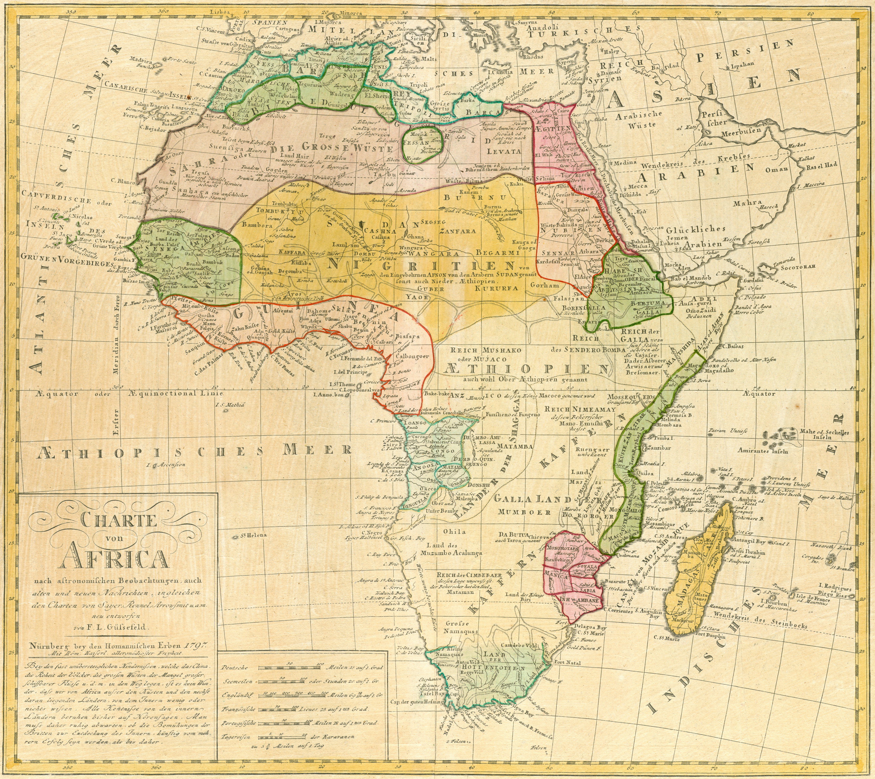 Map of Africa, 1797. Prime meridian: Ferro. Relief shown by hachures. hand col. ; 46 x 53 cm Original description (German, period diction) Charte von Africa nach astronomischen Beobachtungen, auch alten und neuen Nachrichten, ingleichen den Charten von Sayer, Rennel, Arrowsmit u.a.m. neu entworfen von L. Grüsefeld ---- Nürnberg bey den Homannischen Erben 1797. Mit Röm. Kaiserl. allergnädigster Freyheit ---- Bey den fast unübersteiglichen Hindernisen, welche das Clima, die Roheit der Völcker, die grosſen Wüsten, der Mangel grosſer schiffbarer Flüsſe u. d. m. in den Weg legen, ist es kein Wun- der, dass wir von Africa ausser den Küsten und den nechst daran liegenden Ländern, von dem Inneren wenig oder nichts wissen. Alle Kentnisse von den inneren Ländern beruhen bisher auf auf Hörensagen. Man Muss daher ruhig abwarten, ob die Bemühungen der Britten zur Entdeckung des Inneren, künftig vom meh- rern Erfolg seyn werden als bis daher.